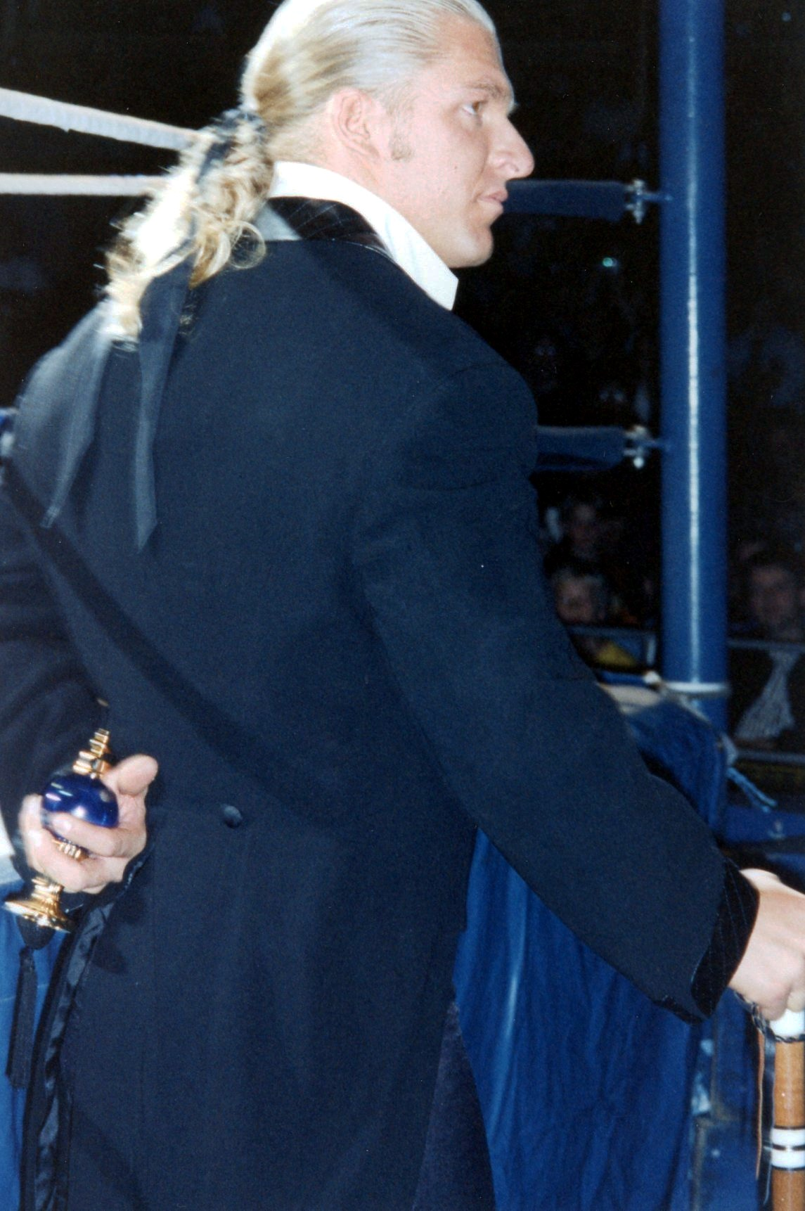 Hunter Hearst Helmsley approaching the ring in a tailcoat, holding a spray of cologne.